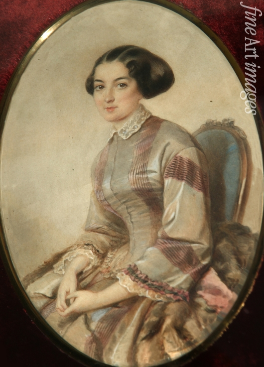 Portrait of the writer Avdotya Panayeva (1819-1893) State Art Museum of Republic Tatarstan, Kazan